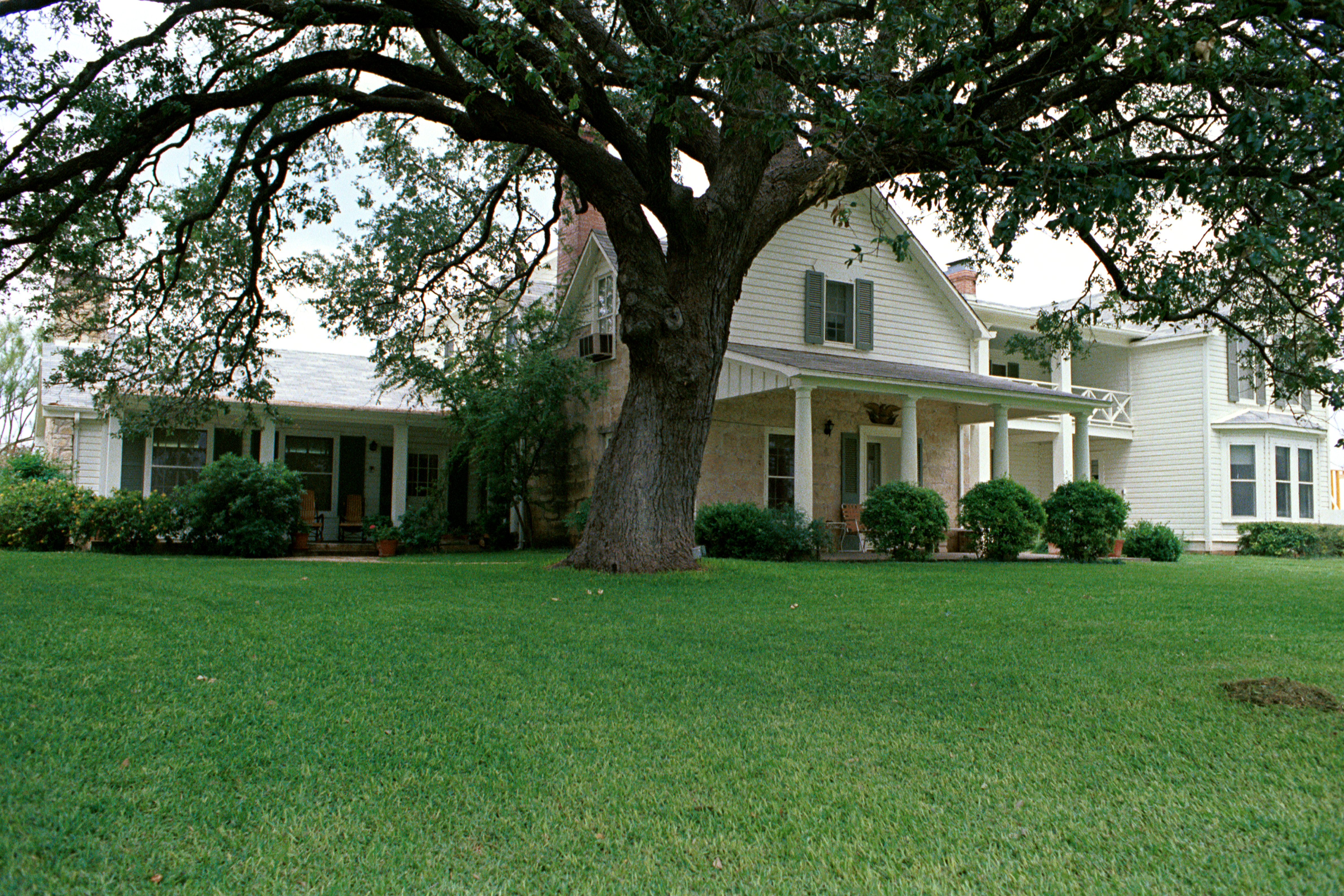 LBJ Ranch